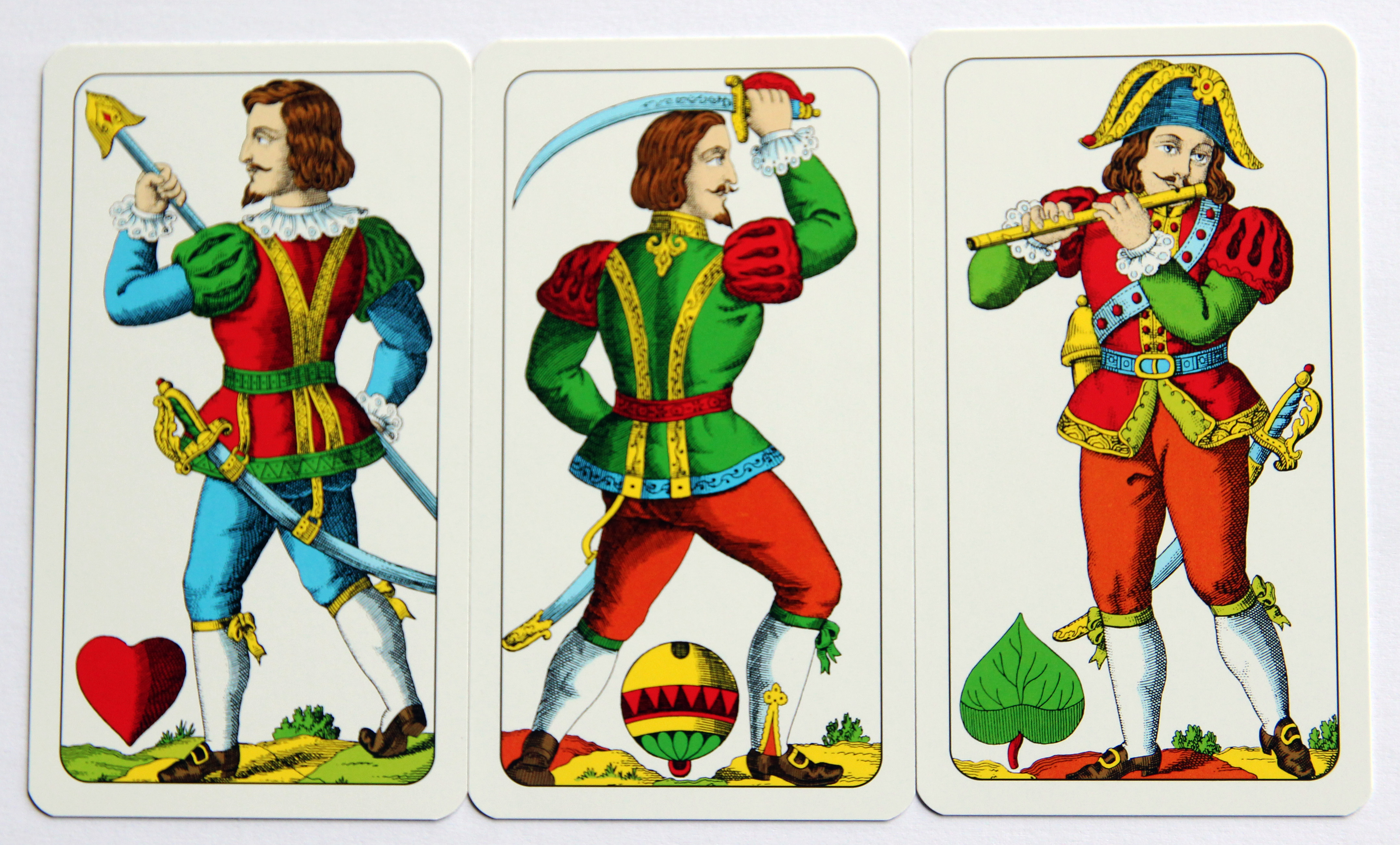 Salzburg pattern cards - Unters of Hearts, Bells and Leaves. The original card design emerged around 1850 (source: PATTERN SHEET 56 by the International Playing Card Society, 13 Sep 2010).